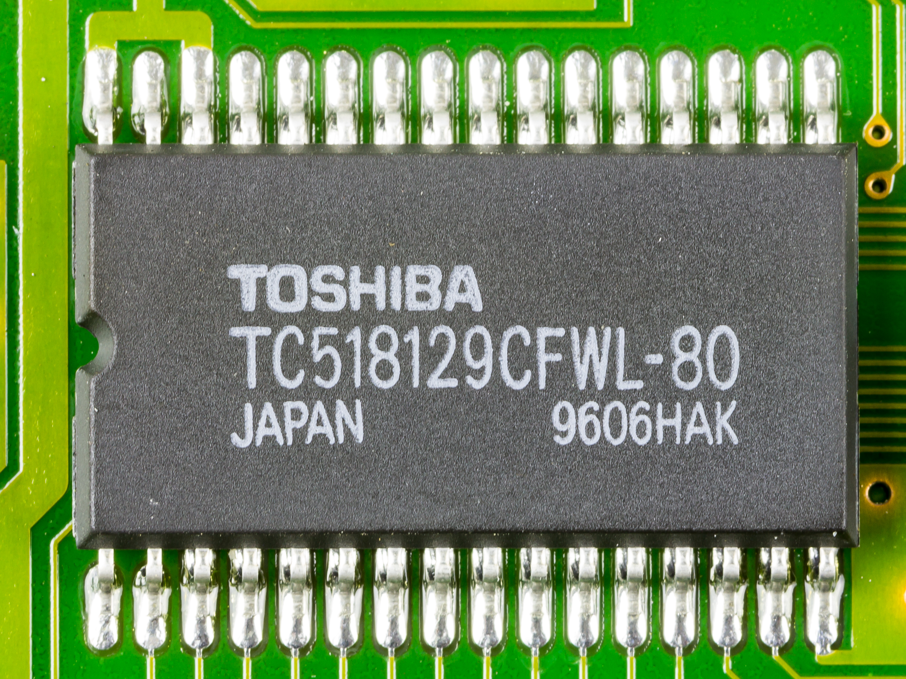 Olivetti JP90 - Toshiba TC518129CFWL-80 (1 Mbit high speed CMOS pseudo static RAM) on controller